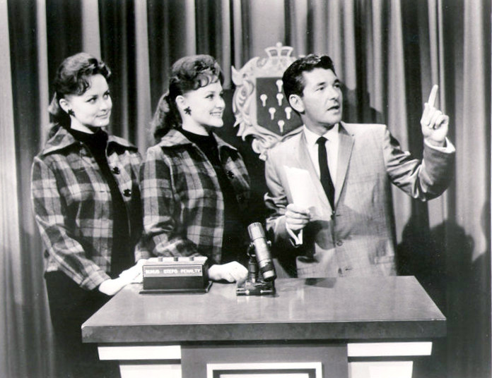 Publicity photo from the television game show Seven Keys. Pictured is host Jack Narz with two contestants.